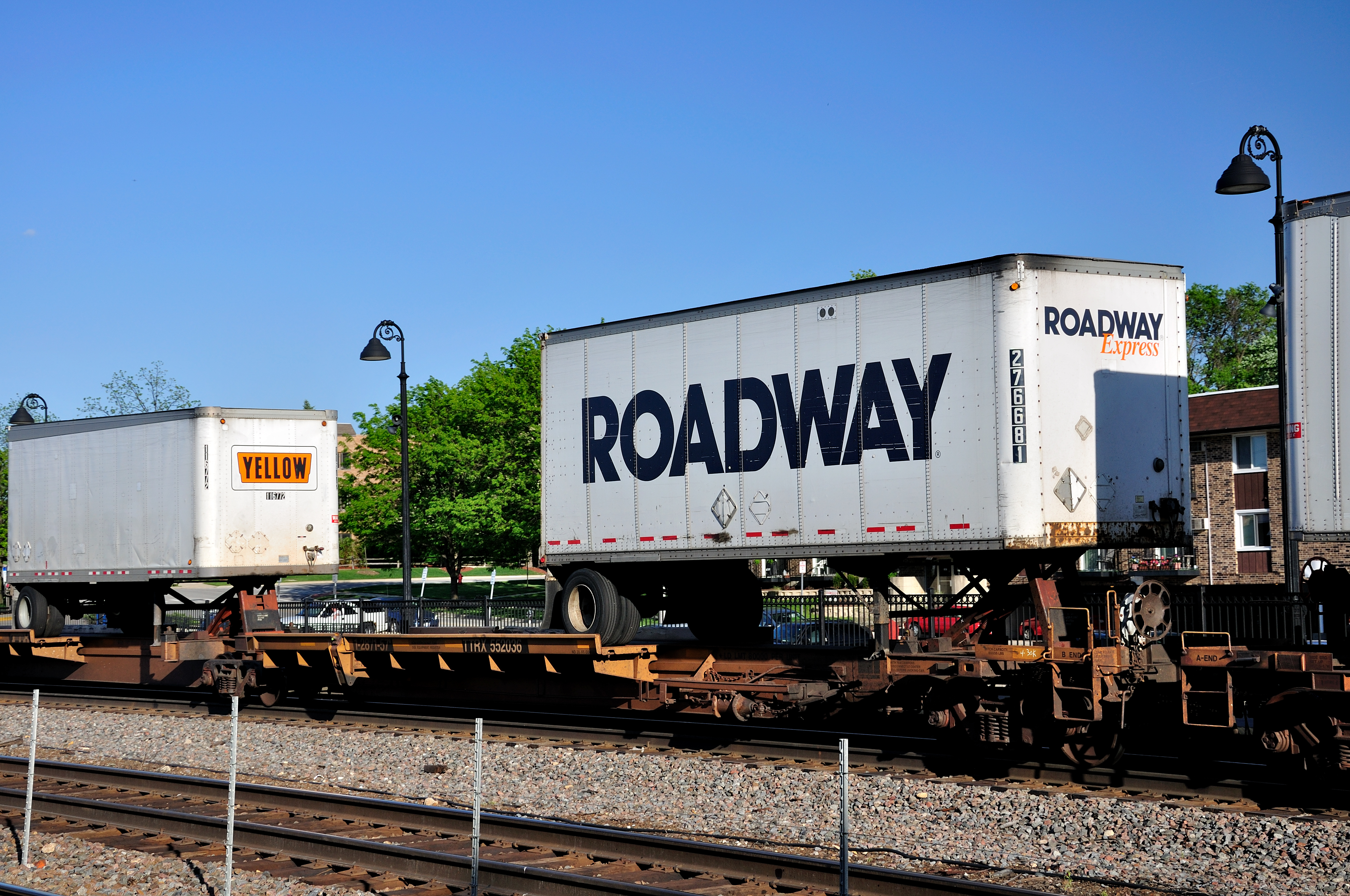 Roadway Express and Yellow freight trailers on flat cars in U.S.